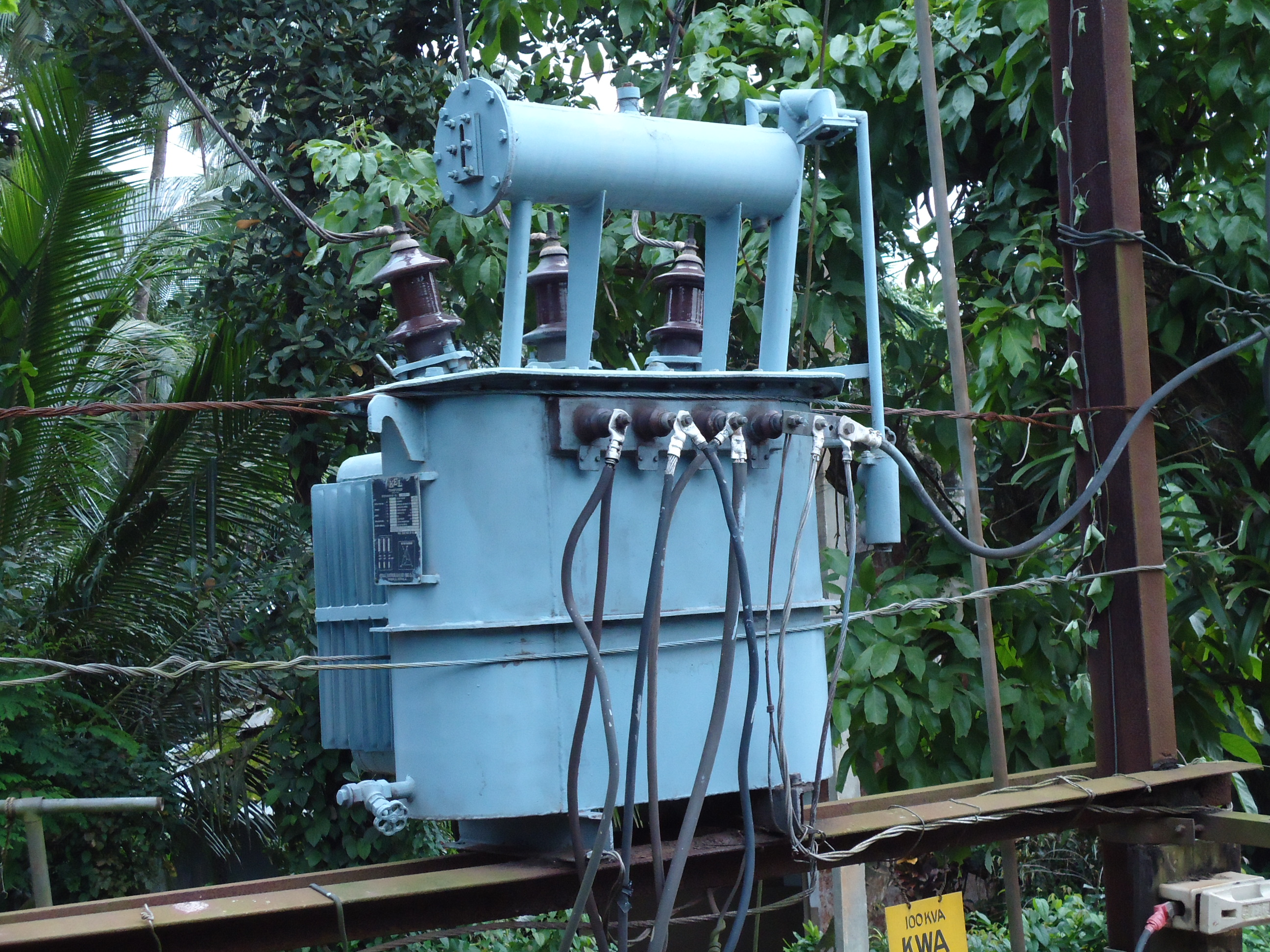 Step Down transformer used in Kerala by KSEB.